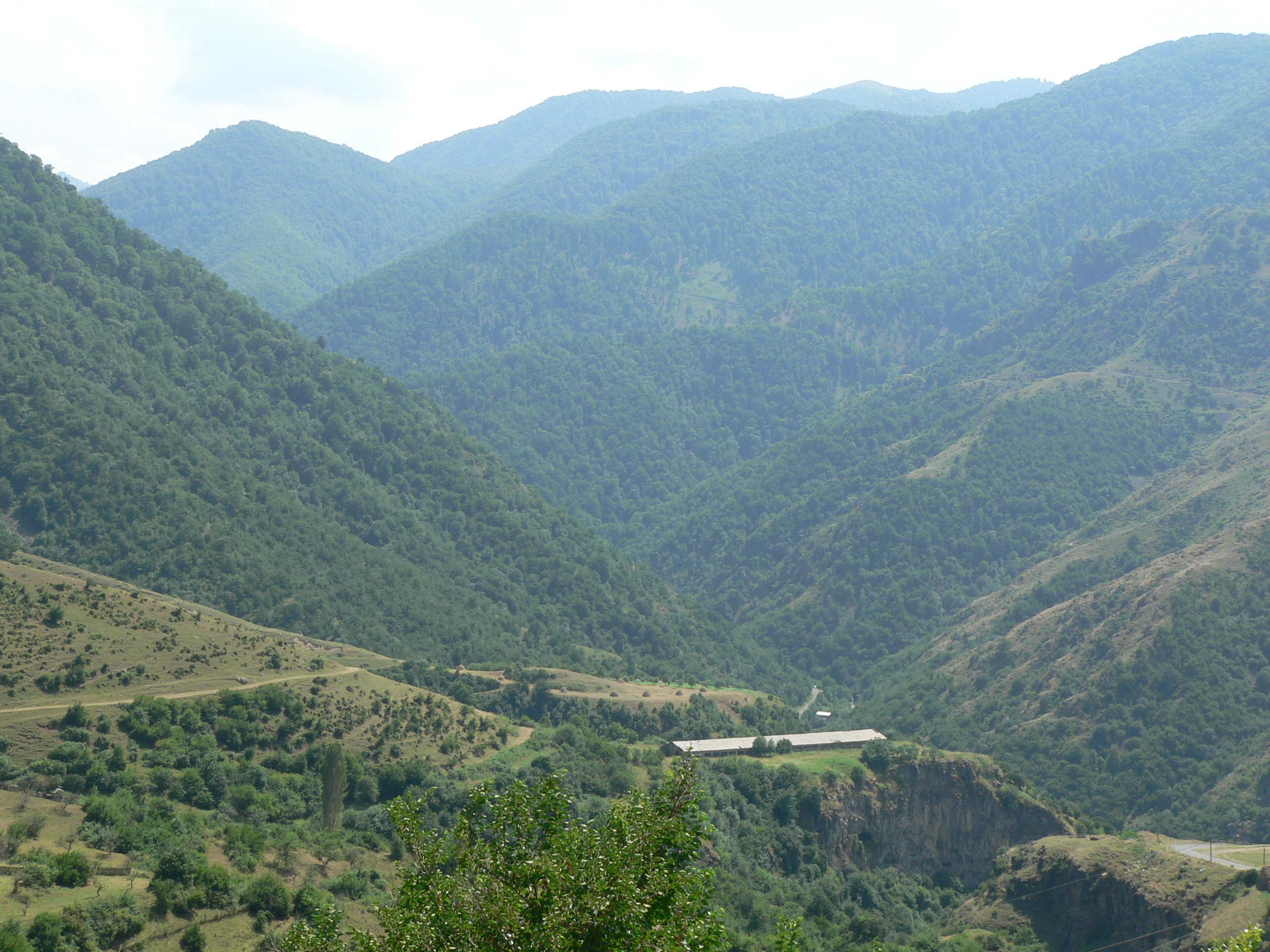 Canyon. Lori region, Armenia.